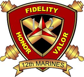 Category:United States Marine Corps images